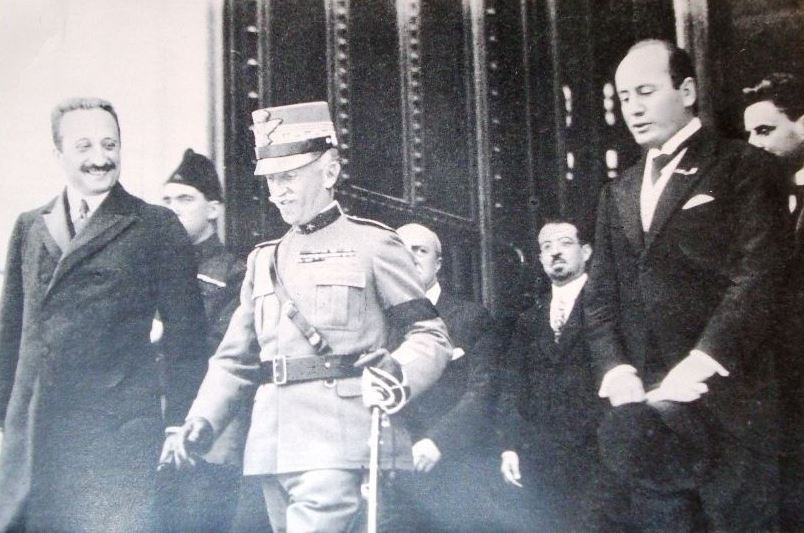 Enrico De Nicola, the king of Italy and Benito Mussolini leaving the Palazzo Montecitorio